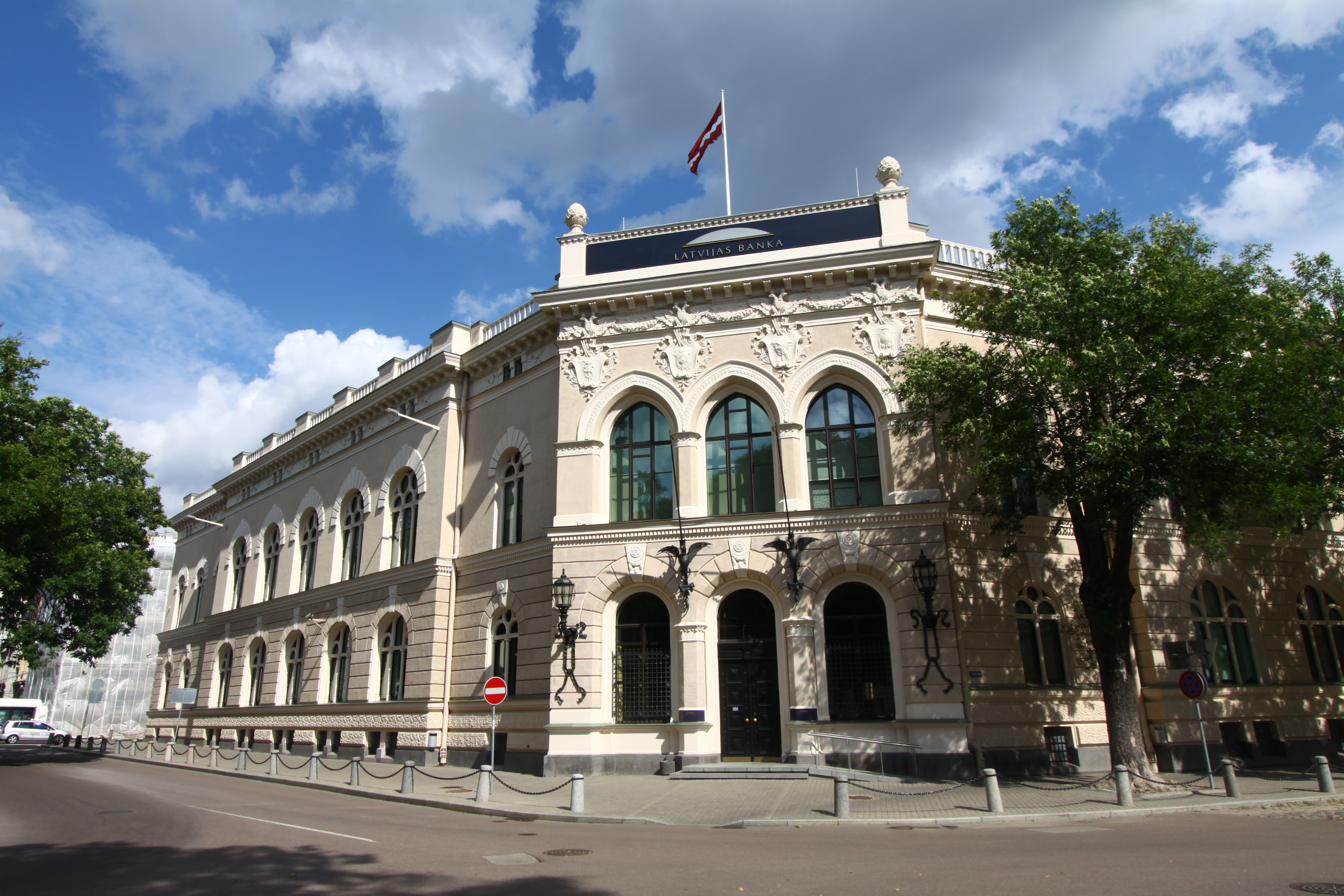 Latvian Central Bank